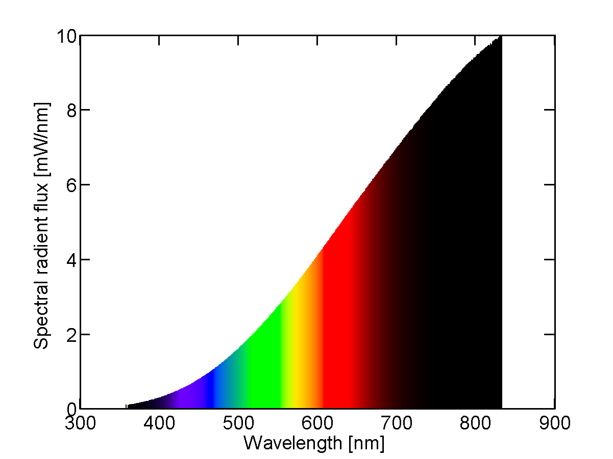 Spectral power distribution of a 25 W incandescent light bulb, measured at the Department of Photonics Engineering at the Technical University of Denmark. With a calibrated Instrument systems CAS - 140 Array spectrometer. Spectral colors added as sRGB values for monochromatic light scaled with the the luminosity function.